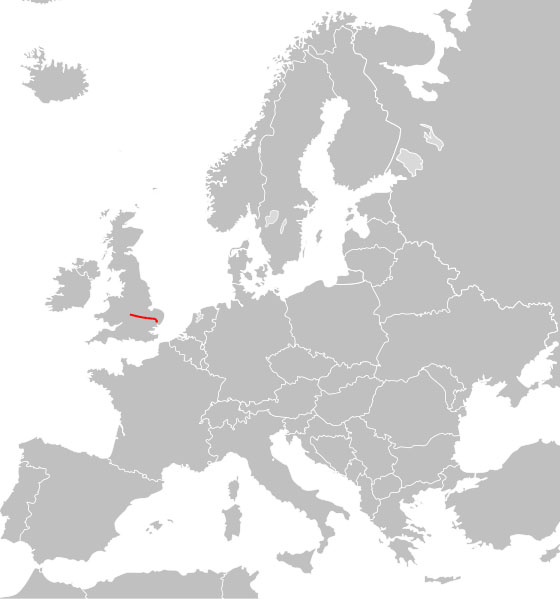 The European route 24